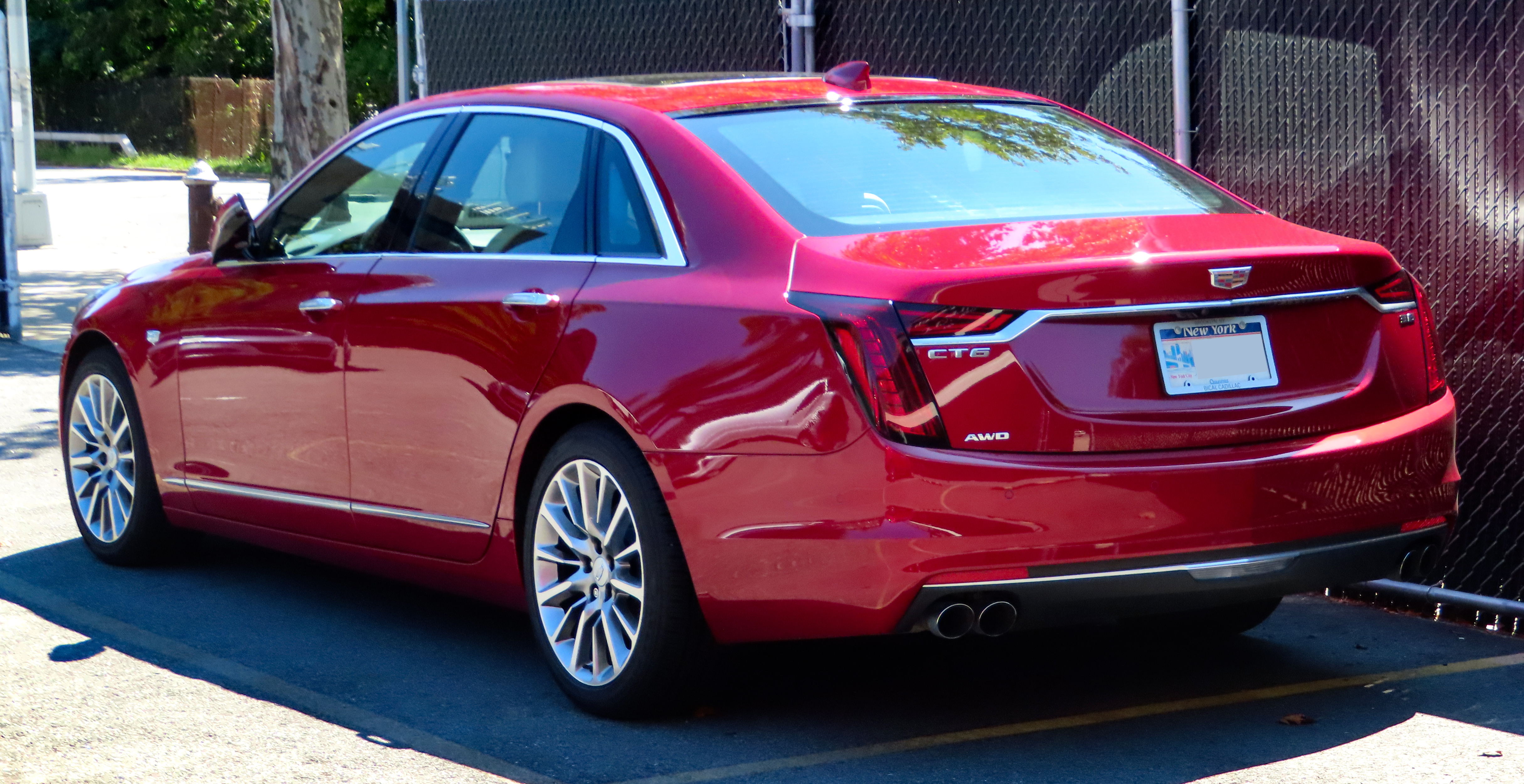 A 2019 Cadillac CT6 photographed in Queens, New York, USA